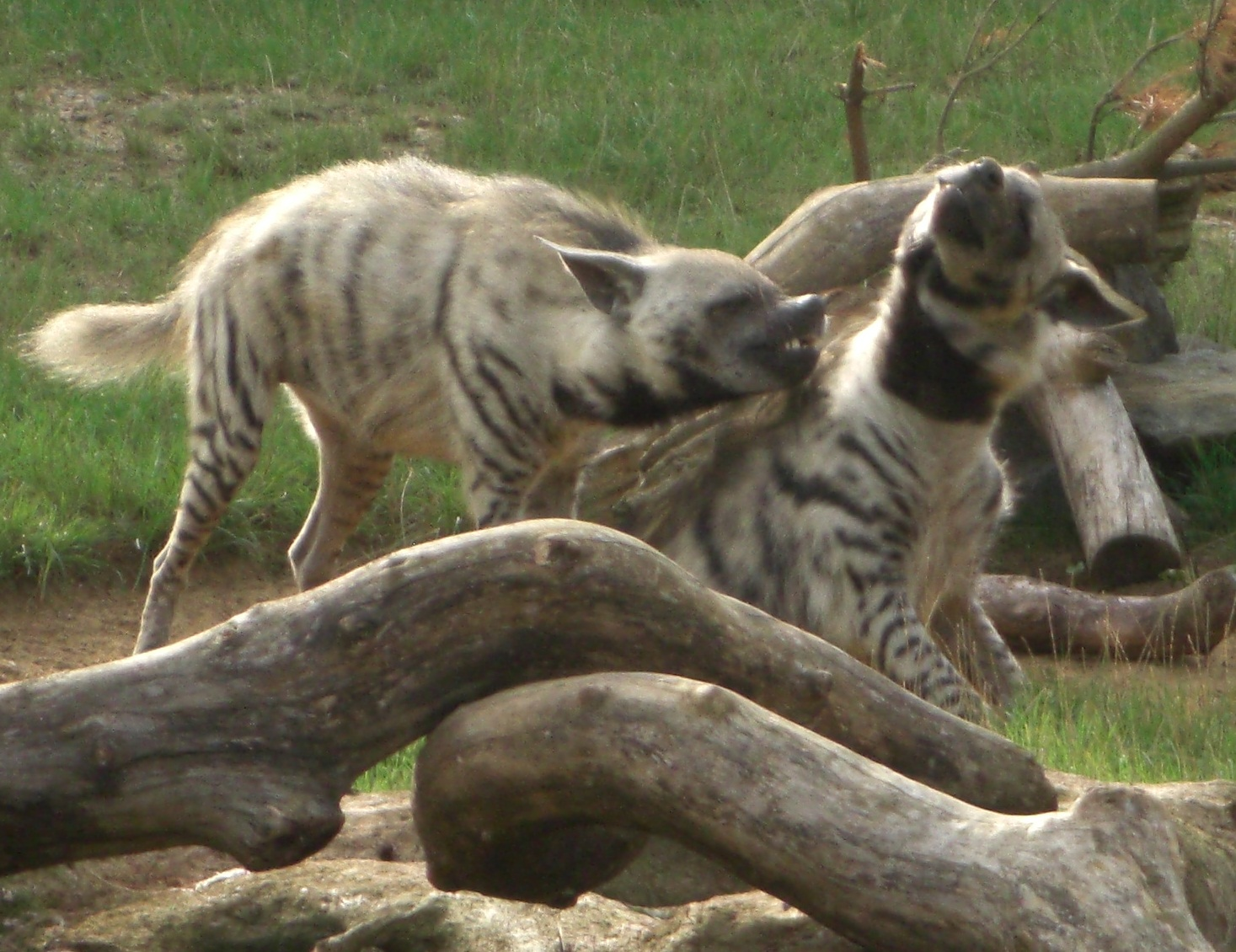 A depiction of two hyenas fighting at Colchester Zoo.